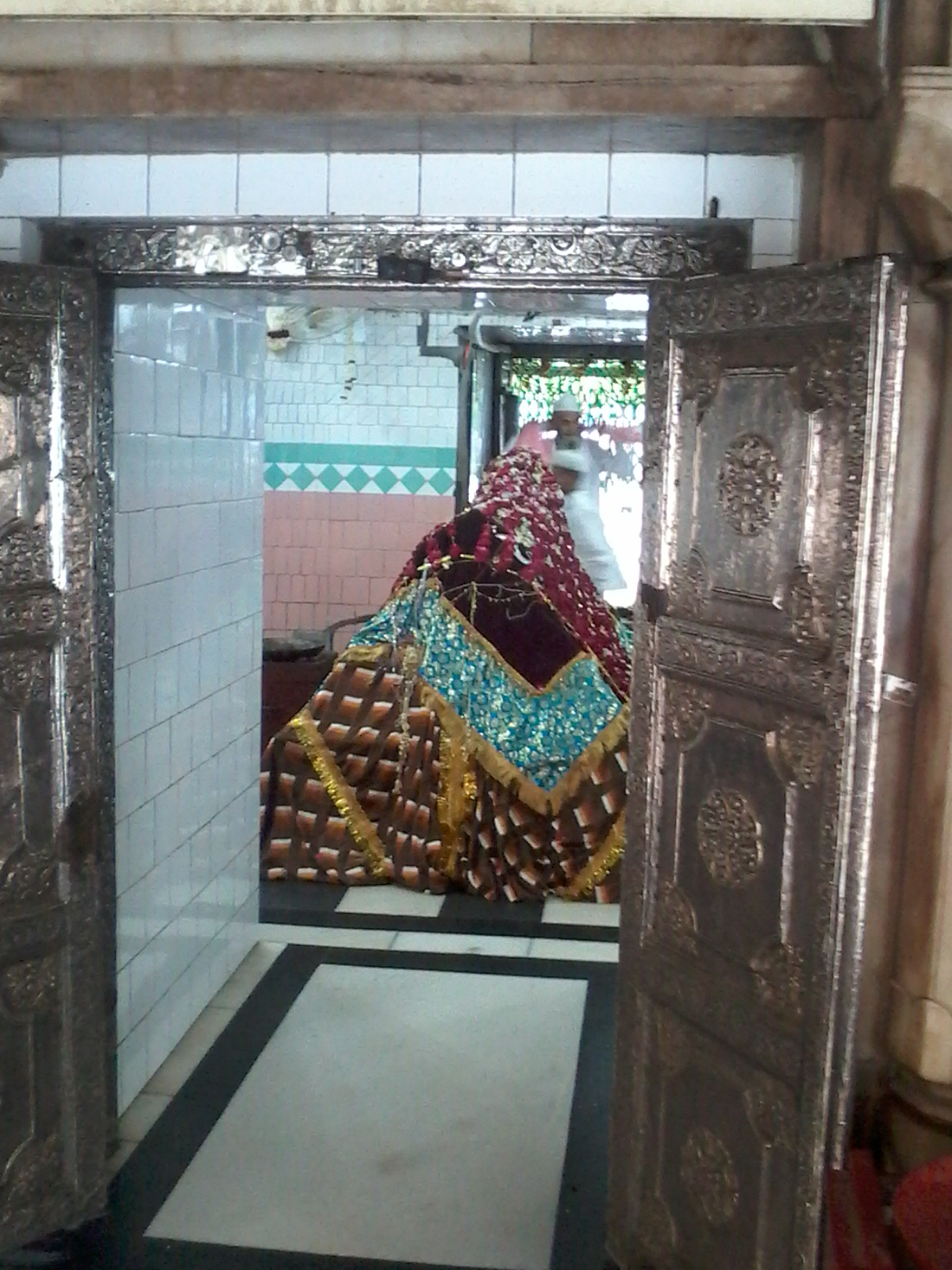 This photo of grave of Syed Salar Masood Ghazi Bahraich U.P India by faranjuned on visit his tomb